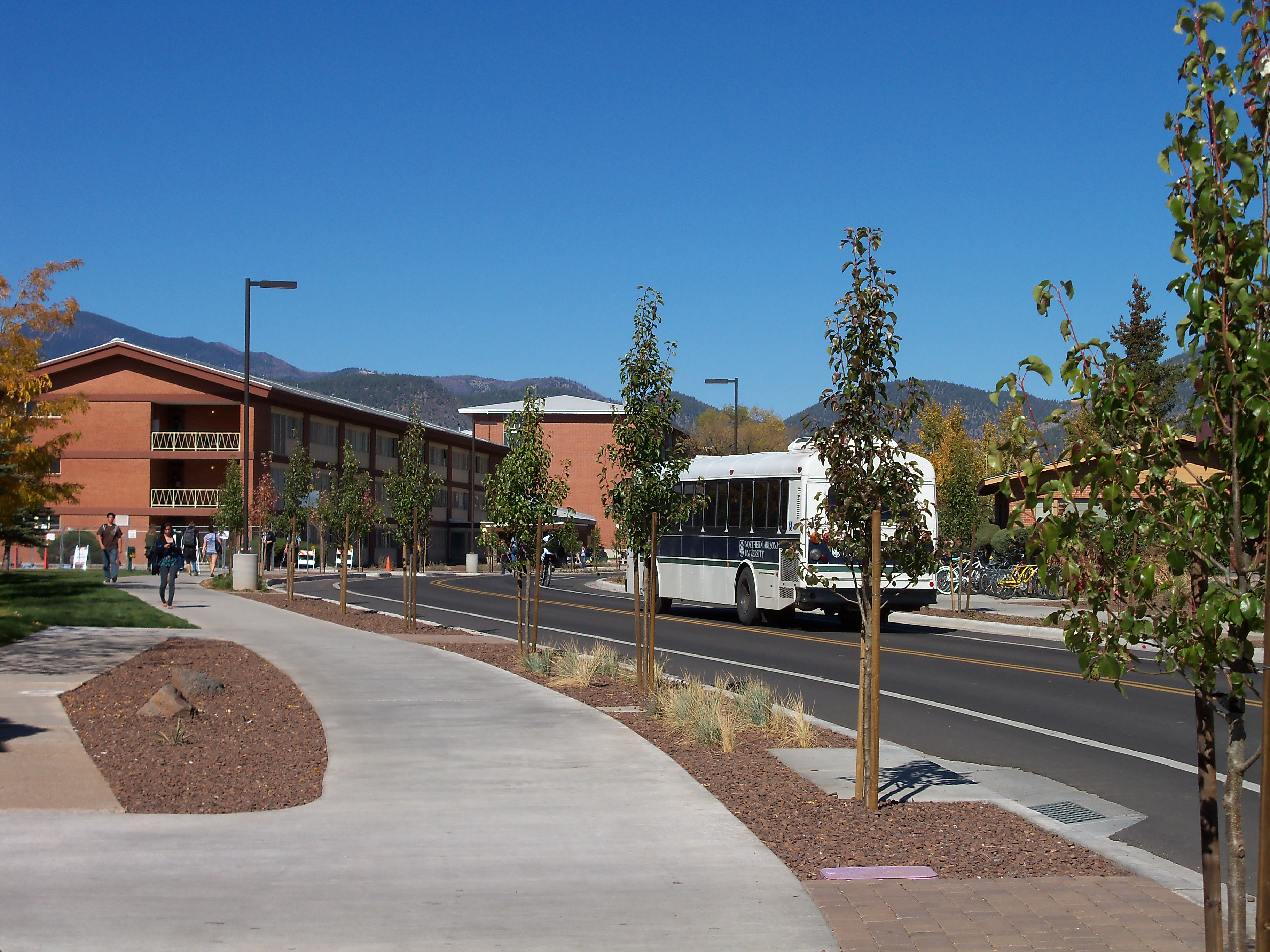 Dedicated bus-only street in Flagstaff, Arizona, U.S.